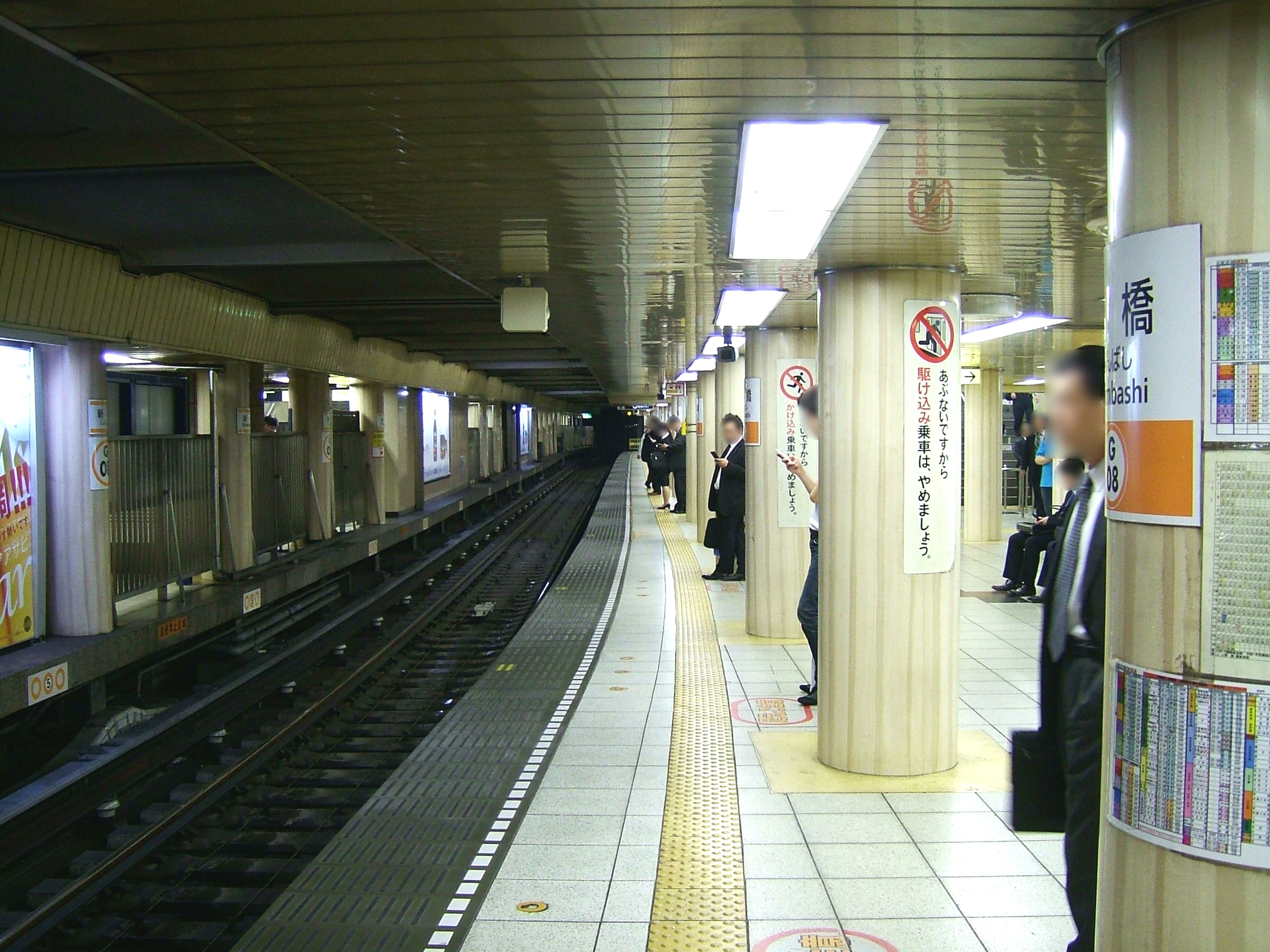 The platform at Shimbashi Station on the Tokyo Metro Ginza Line